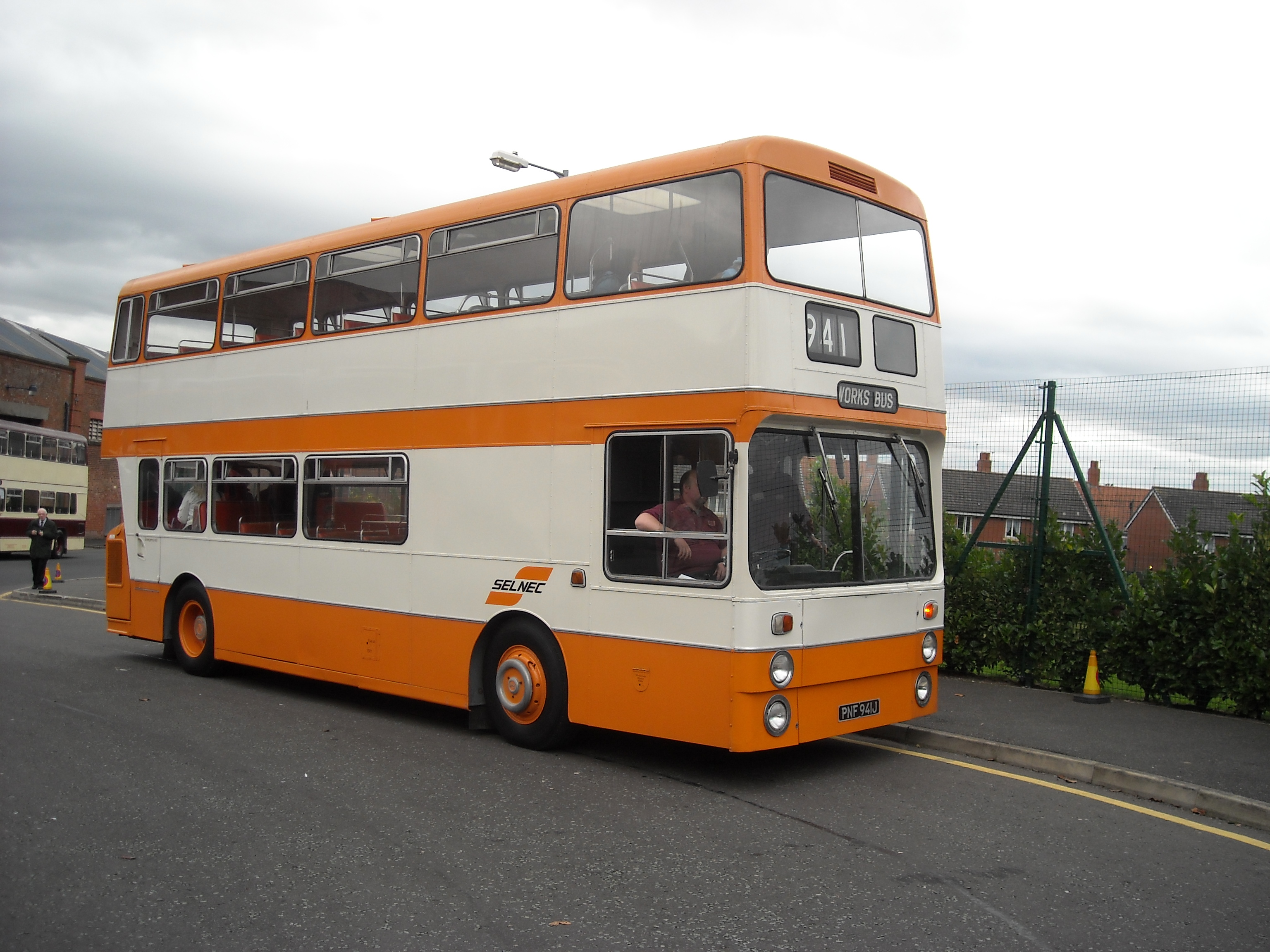 Isn't this bus a beauty? ;)